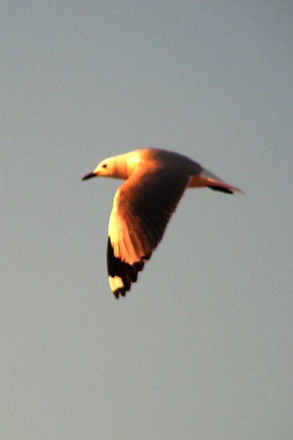 Hartlaub's Gull Larus hartlaubii in flight. Cape Town, South Africa.